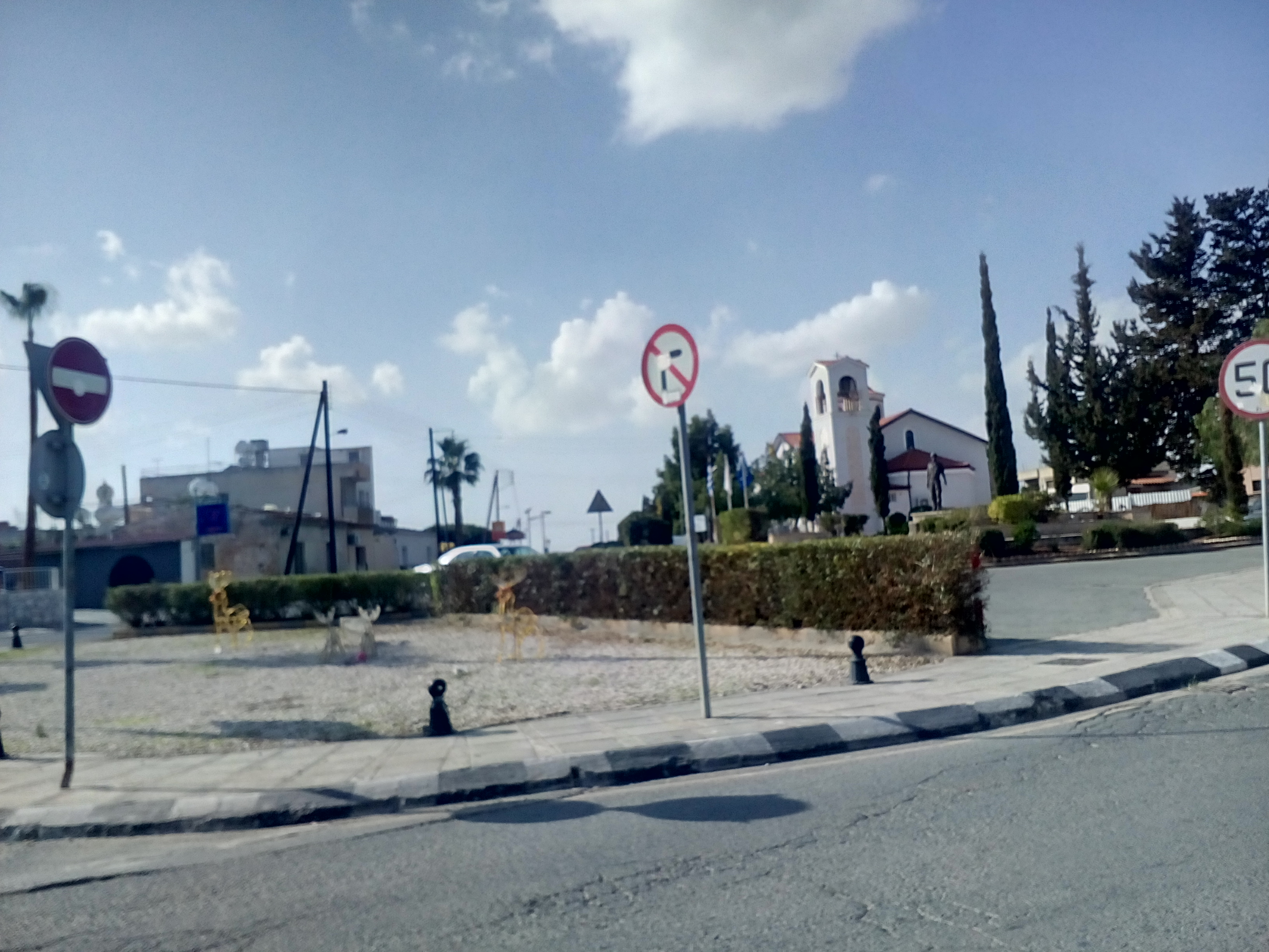 Photograph of a road inside the Industrial Area of Ypsonas, Limassol, Cyprus, 2017